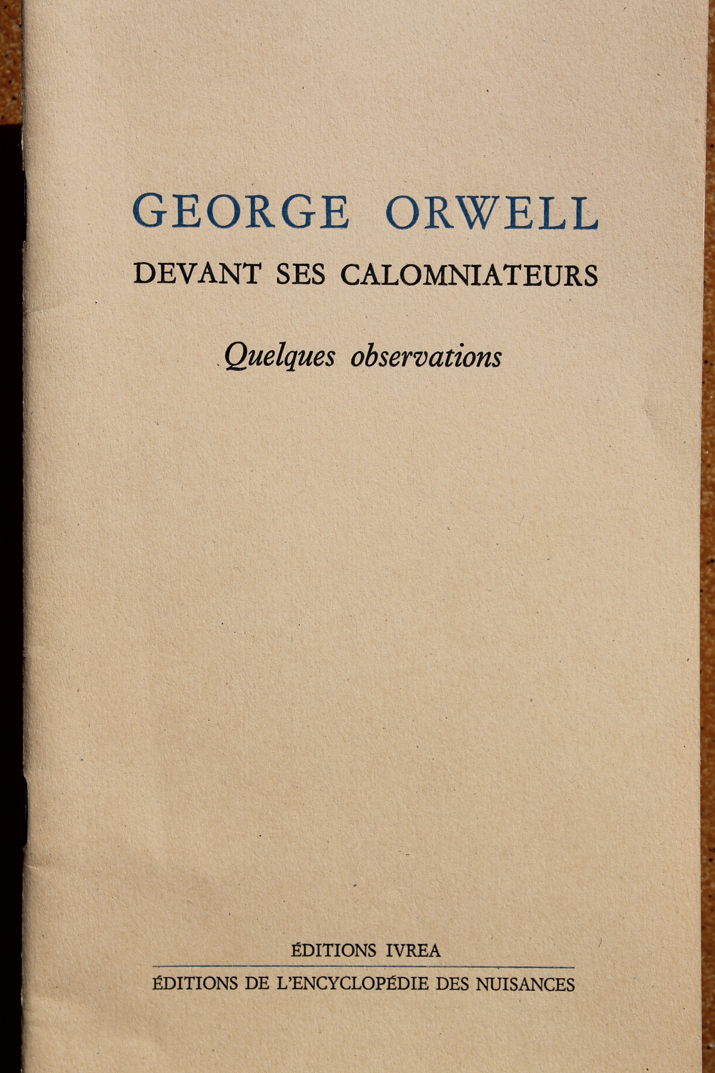 George Orwell devant ses calomniateurs (Encyclopédie des Nuisances / Editions Ivrea)